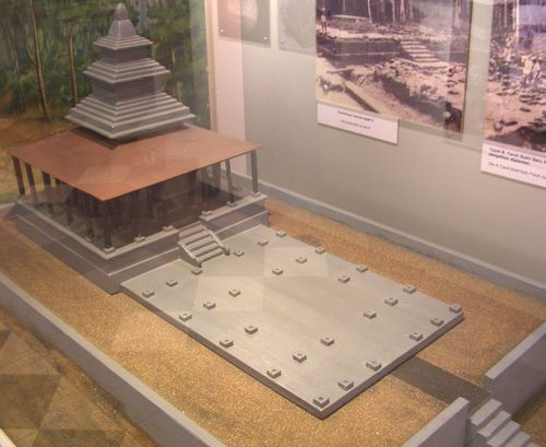 Early Kedah's architecture - EarlyKedah001.jpg